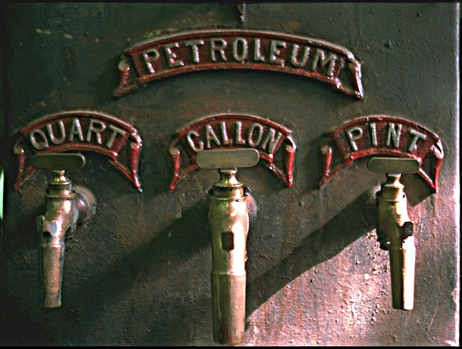 Detail of an old petroleum-fuel station. Motor museum Stratford upon Avon (now gone).